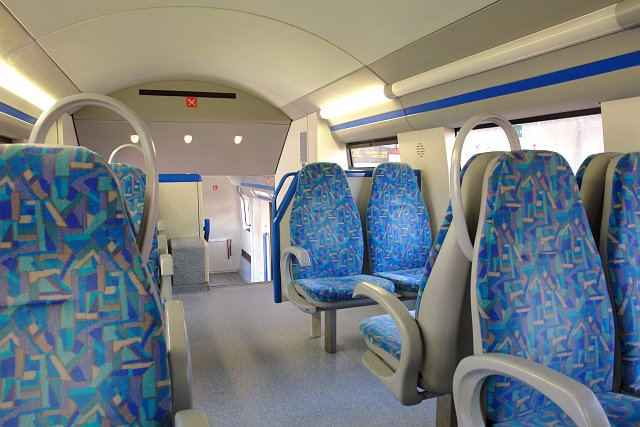 Interior of a Fertagus train in Portugal.